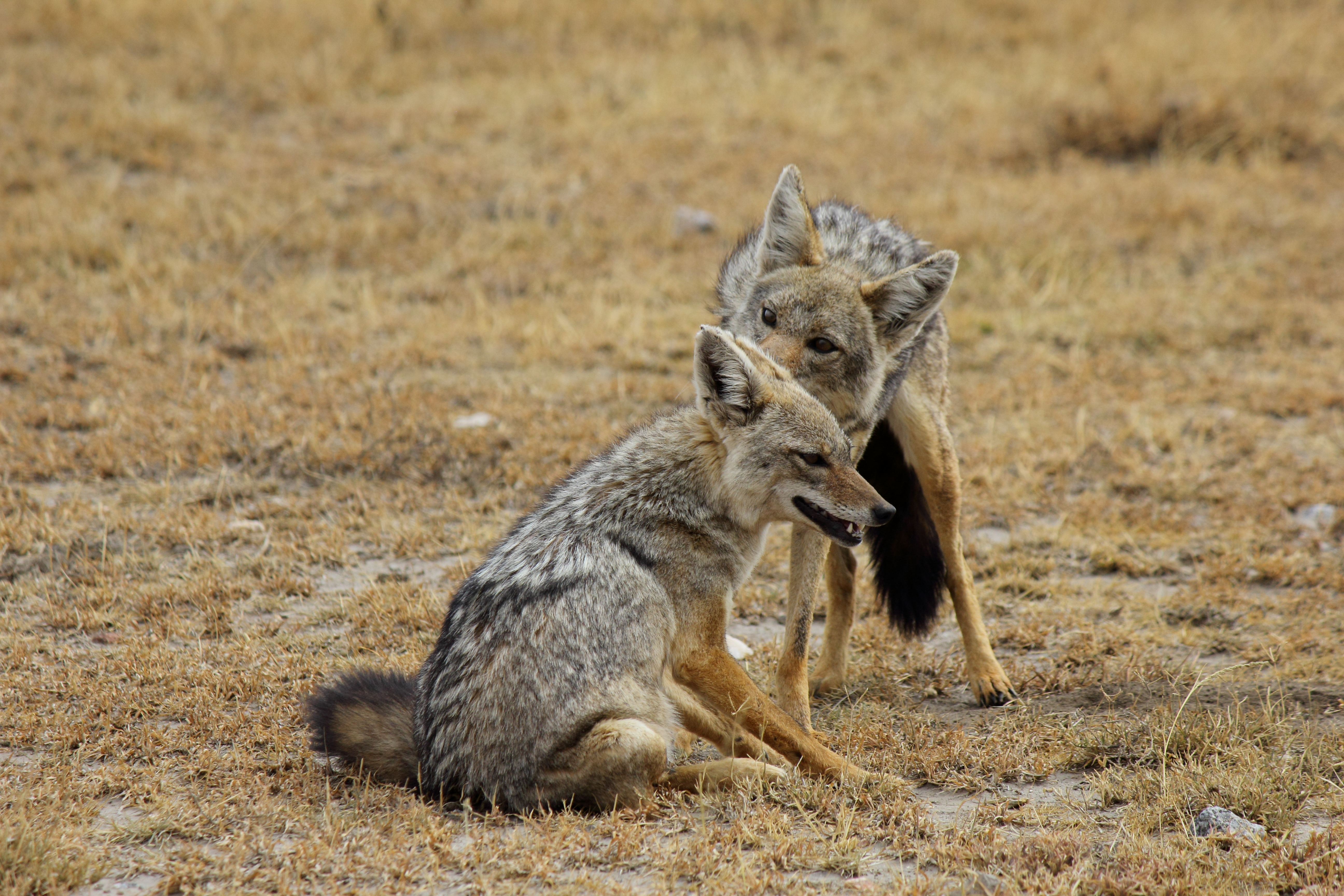 African wolf in the Serengeti